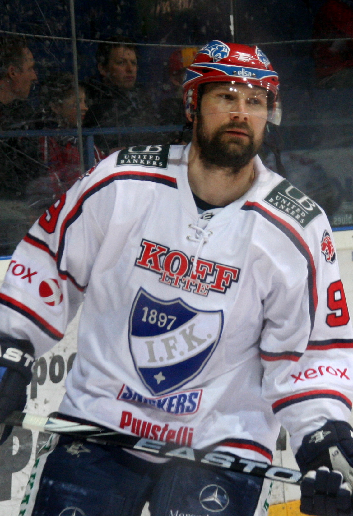 Ice hockey team HIFK's attacker Kimmo Kuhta (no. 9).